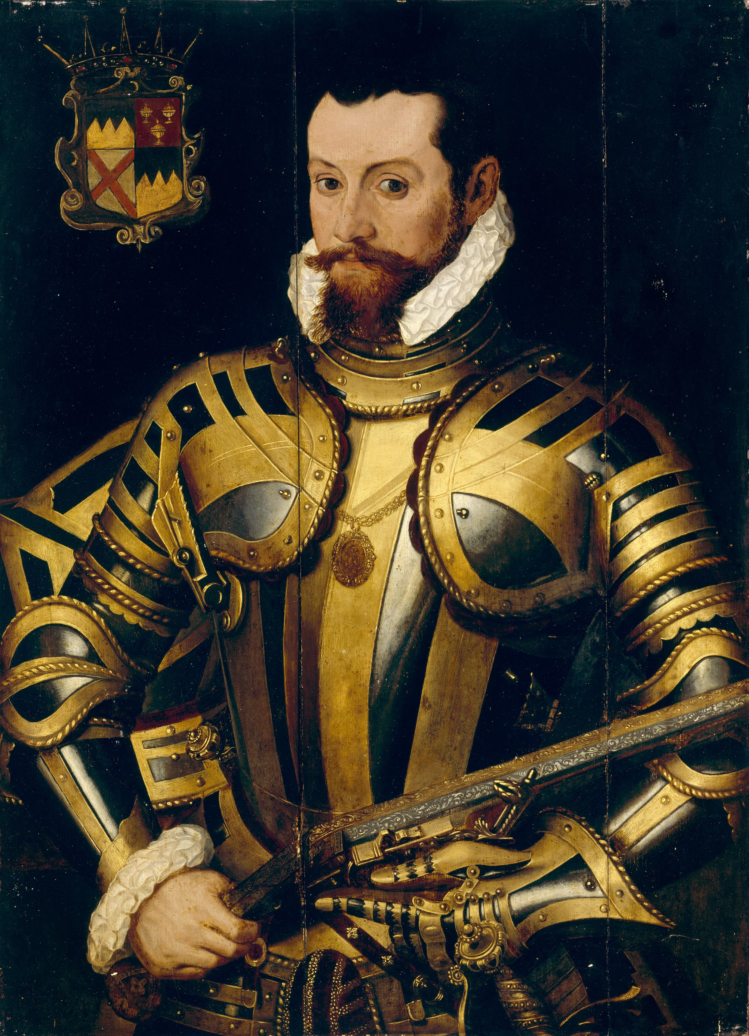 Portrait of Thomas Butler, 10th Earl of Ormond (1531-1614) in three-quarter armour holding a wheelock pistol, with his coat of arms at upper left.